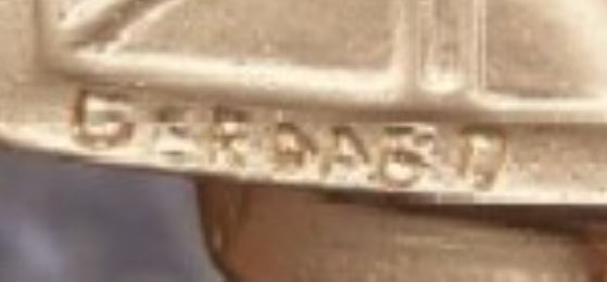 Signature of 'Gerdago' aka Gerda Gottstein